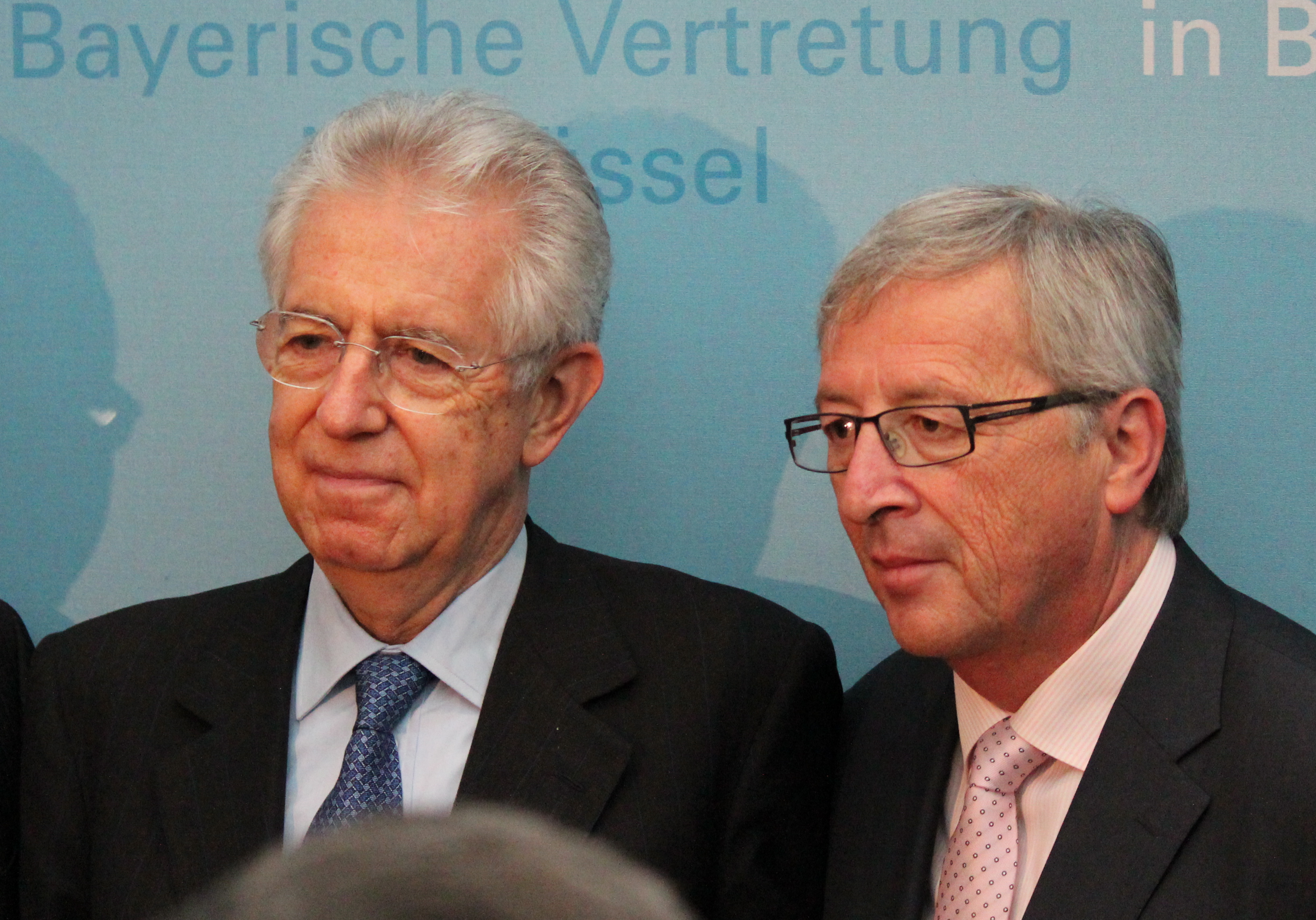 Italian President of the Council (Prime Minister) Mario Monti and Luxembourg Prime Minister Jean-Claude Juncker, at a ceremony organised by the Taxpayers Association of Europe, awarding Mr Monti the European Taxpayers' Prize. Location: Representation of the Free State of Bavaria to the European Union in Brussels, 27 June 2012.